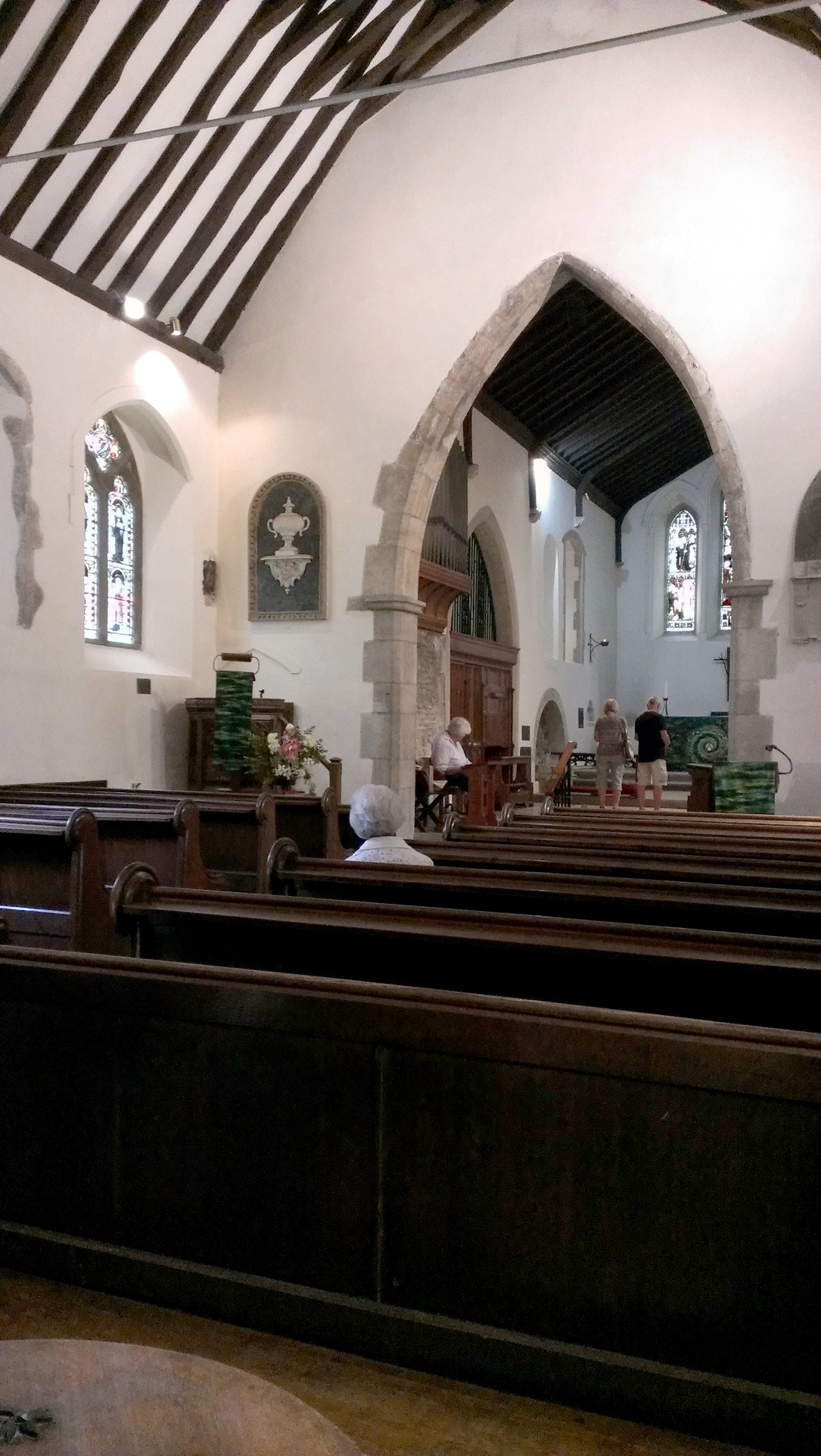 St Martin's Church, North Holmes Rd, Canterbury, Kent, UK. Interior view.